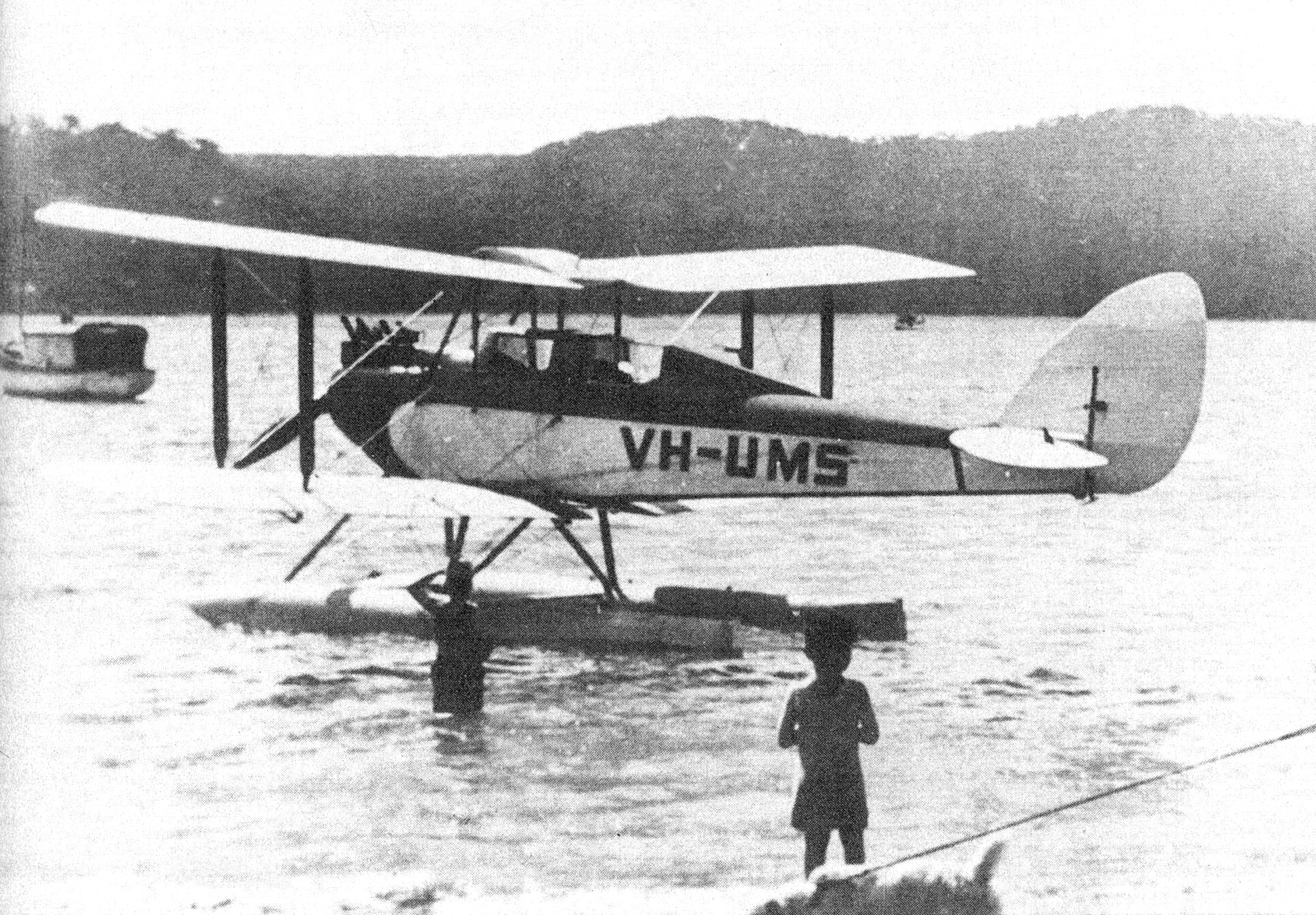 DH.60X Moth operated by Alexander Augustus Norman Dudley ("Jerry") Pentland